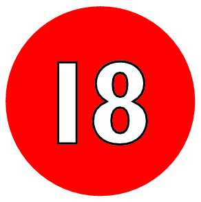 18 tag rating for Irish's cinema, fit for viewing by persons aged 18 YEARS OR MORE